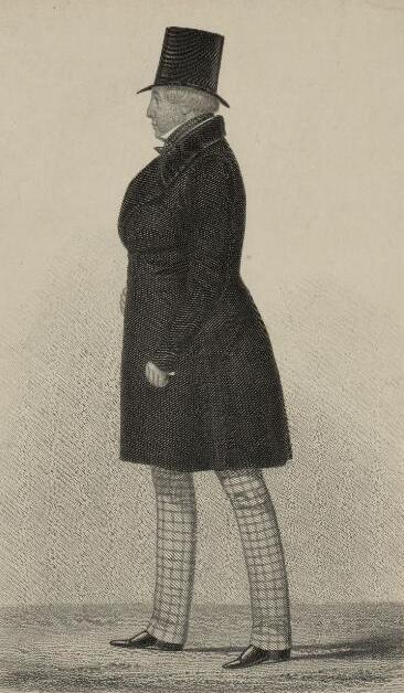 A portrait from the Welsh Portrait Collection at the National Library of Wales. Depicted person: Thomas Raikes – British merchant banker, dandy and diarist